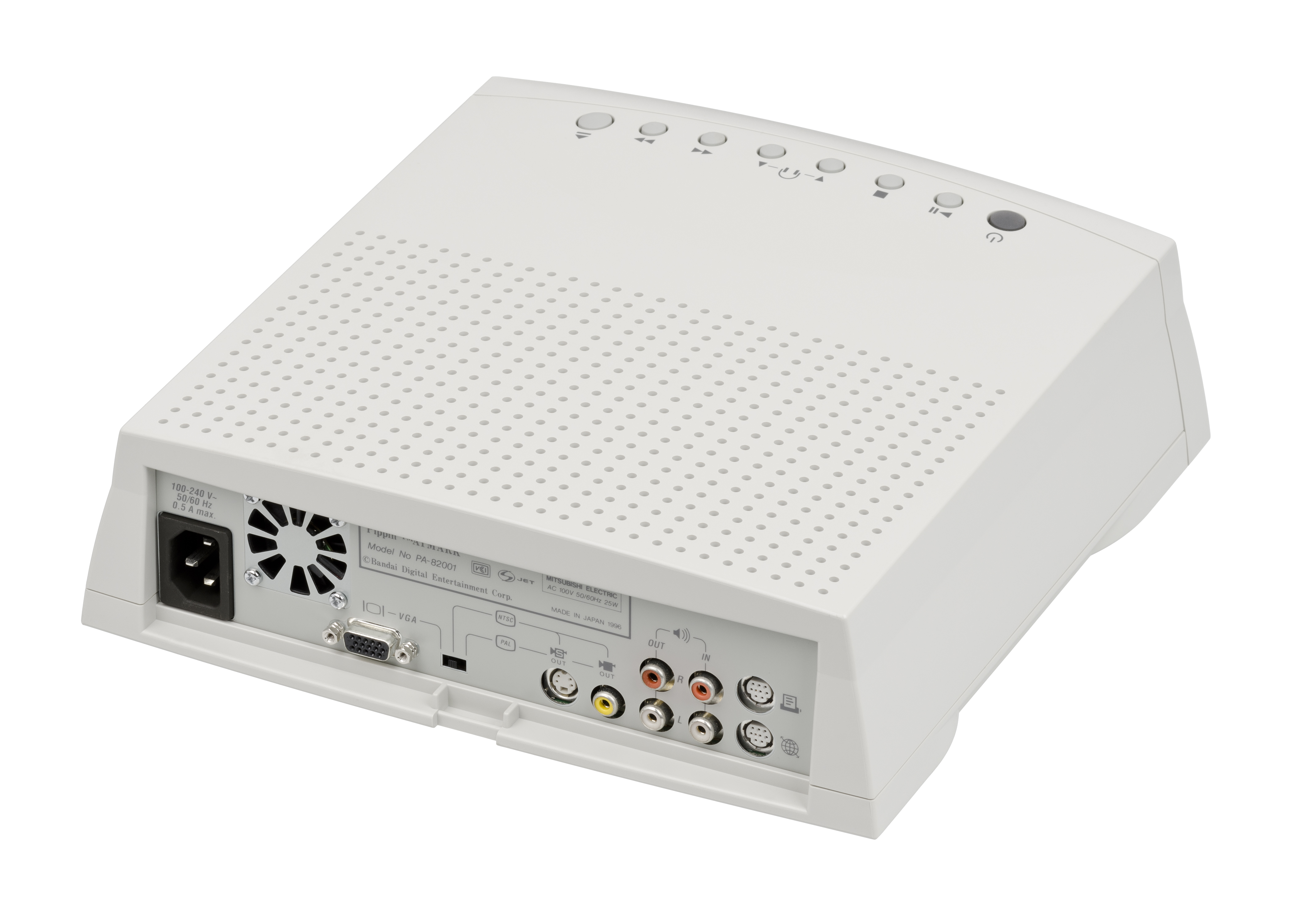 The Apple Pippin, a video game console/computer hybrid that was manufactured by Bandai and released in 1995. This is the Japanese version, the Atmark, that was colored white. The version released in America was called the @WORLD and was colored black. The system was based on the Apple Macintosh computer that was streamlined and focused for playing CD-ROM games.